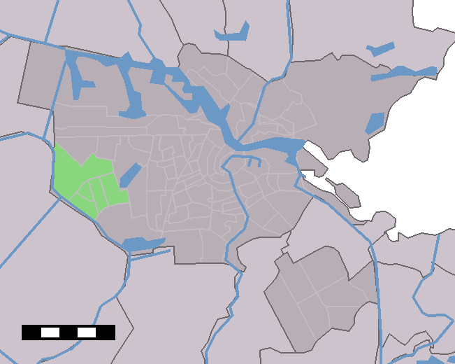 Location of neighbourhoods/districts in Amsterdam